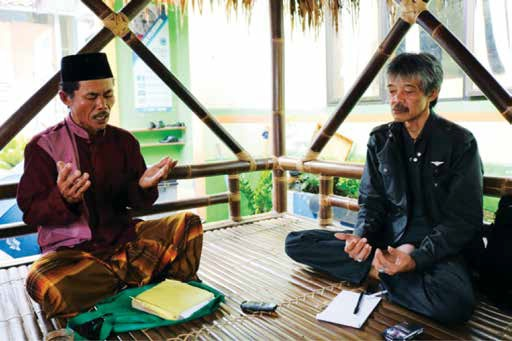 Pembacaan manaqib Syekh Abdul Qadir Jailani pada acara Maca Syekh di Banten